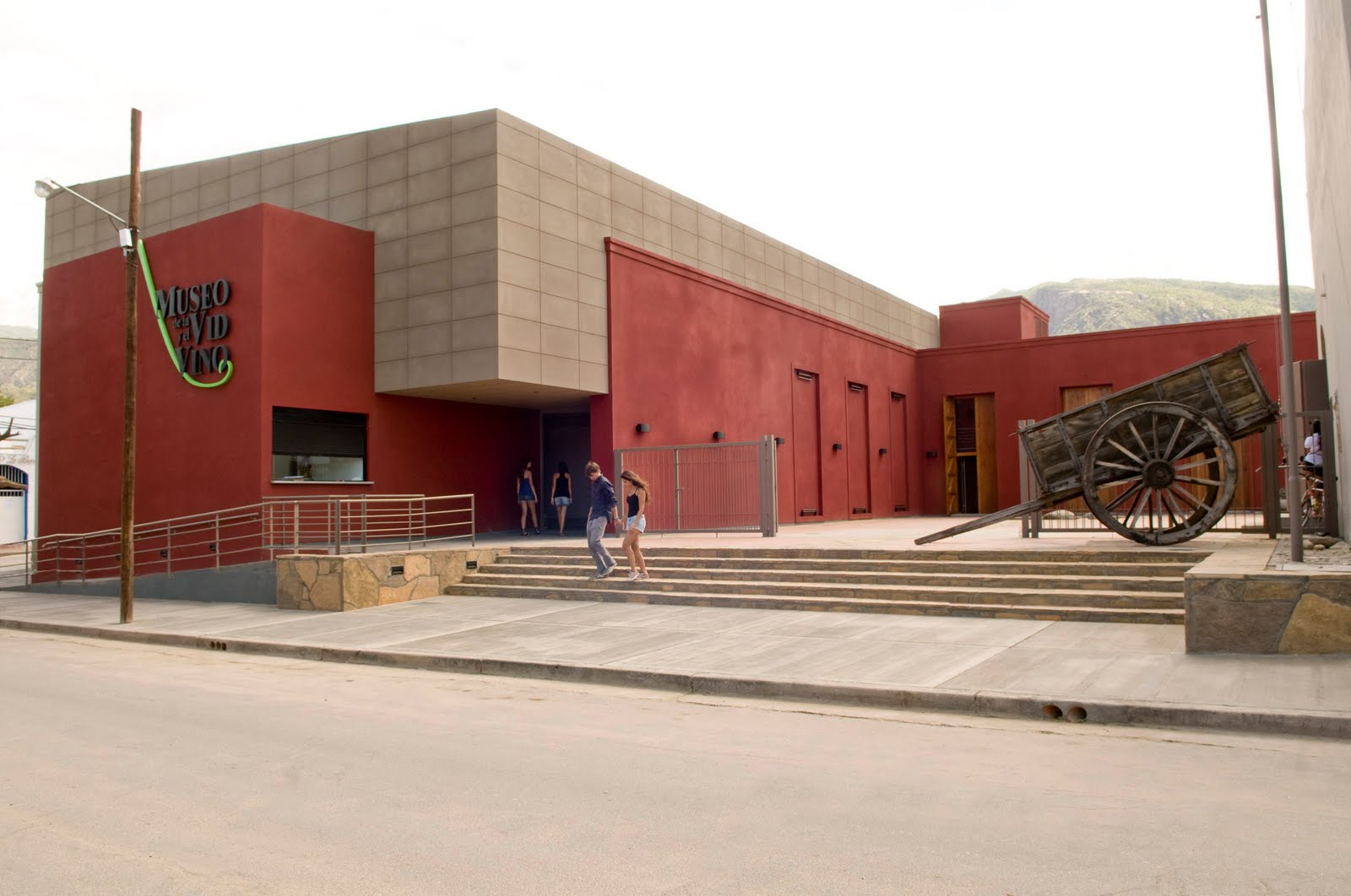 Museo de la vid y el vino de Salta